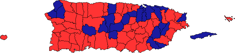 Puerto Rican general election, 1988 map.